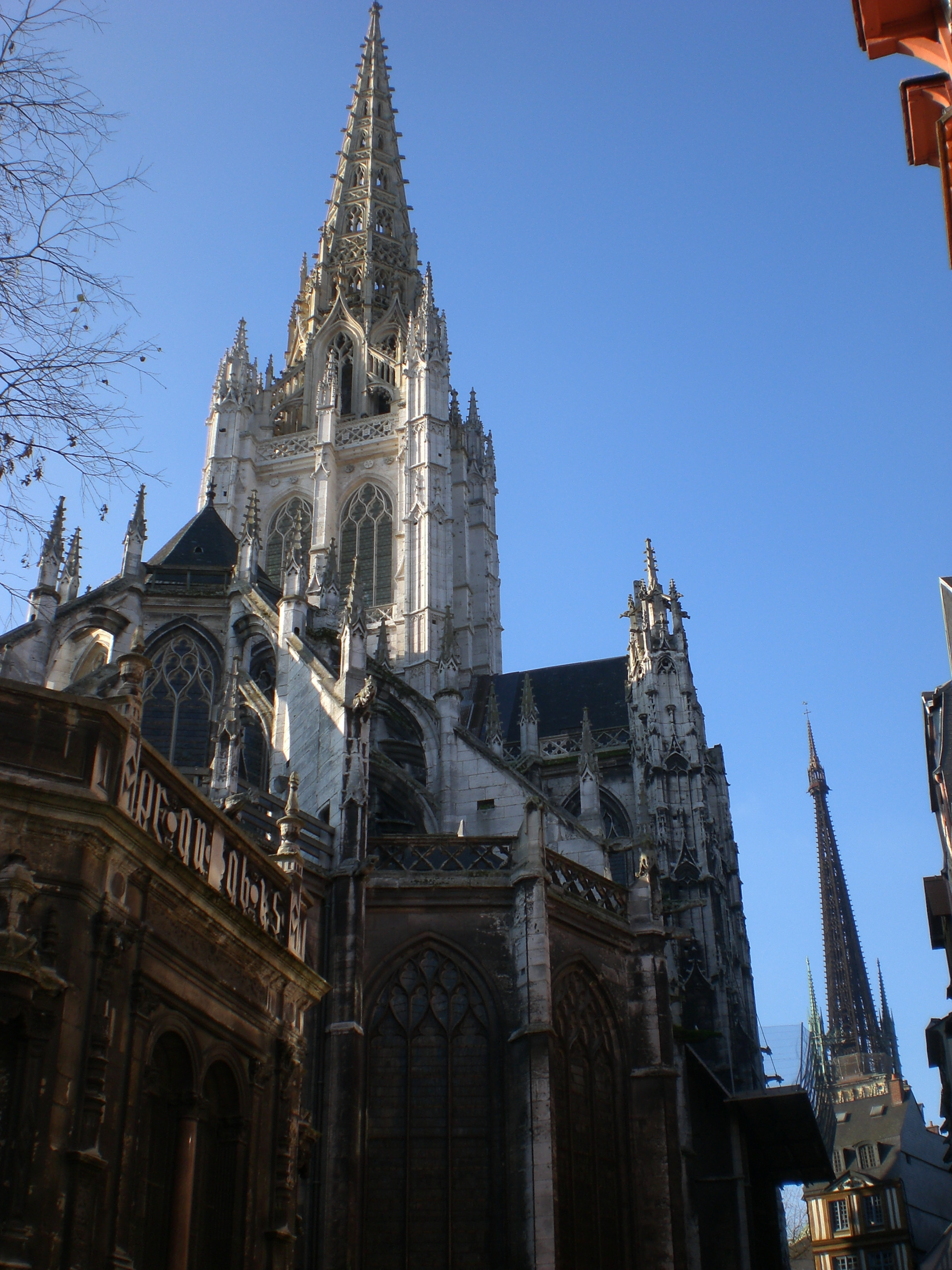 Rouen, Saint-Maclovius's Church, 1436-1520